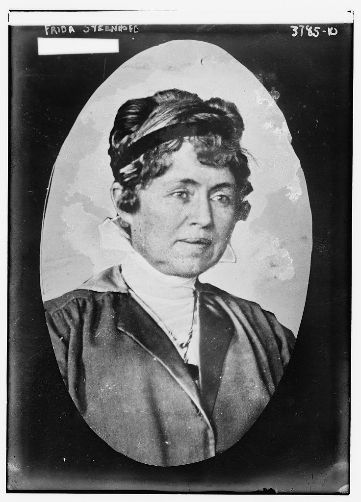 Frida Stéenhoff circa 1915